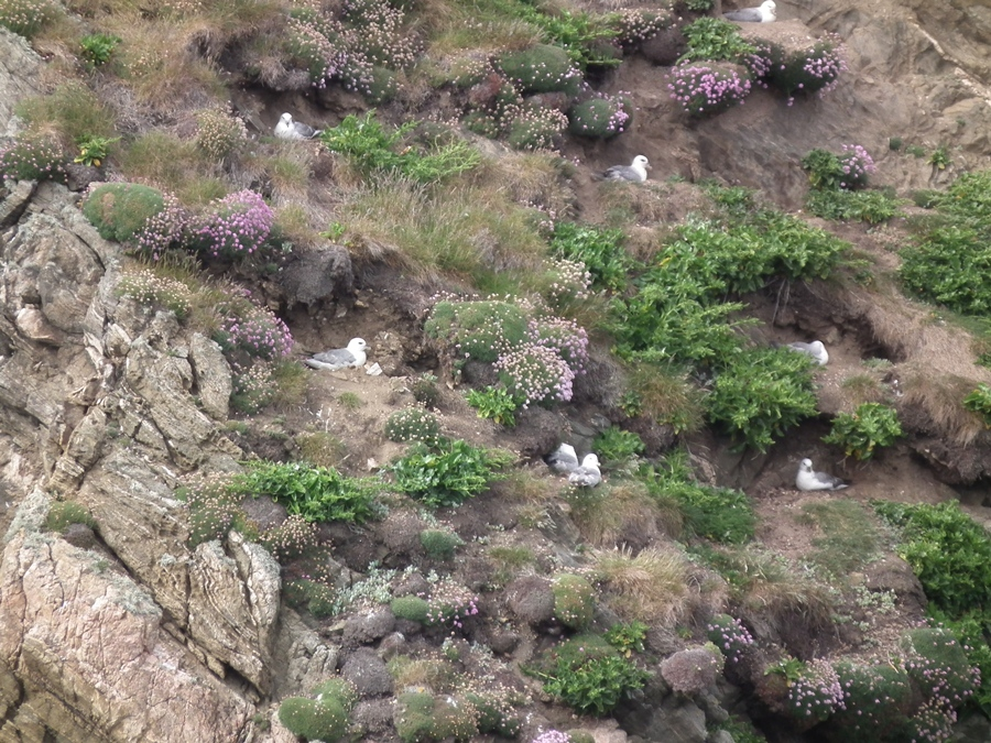 Northern Fulmars nesting on Erris Head, County Mayo, Ireland.